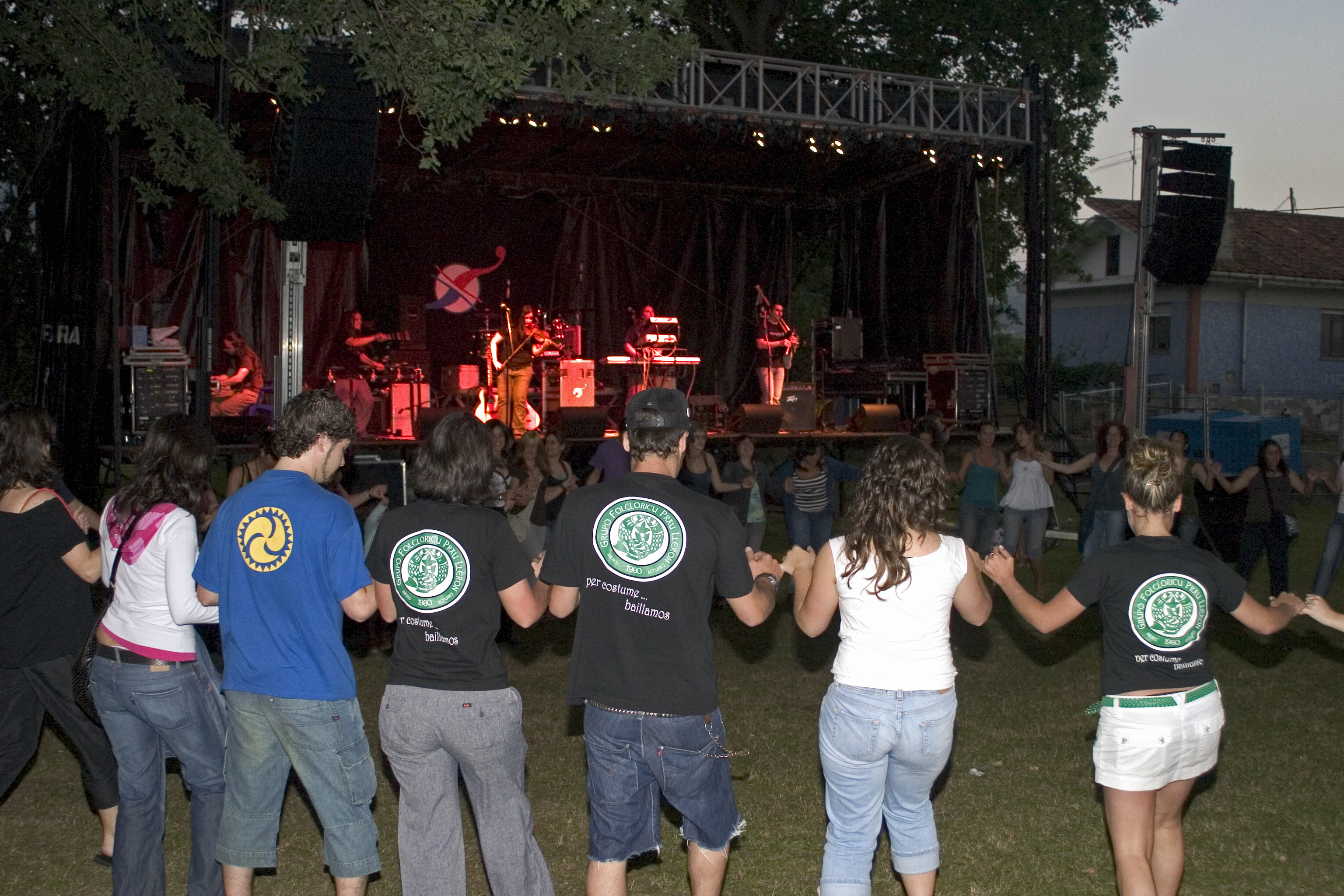 Xera in concert (Granda, Xixón, Asturies - Spain)